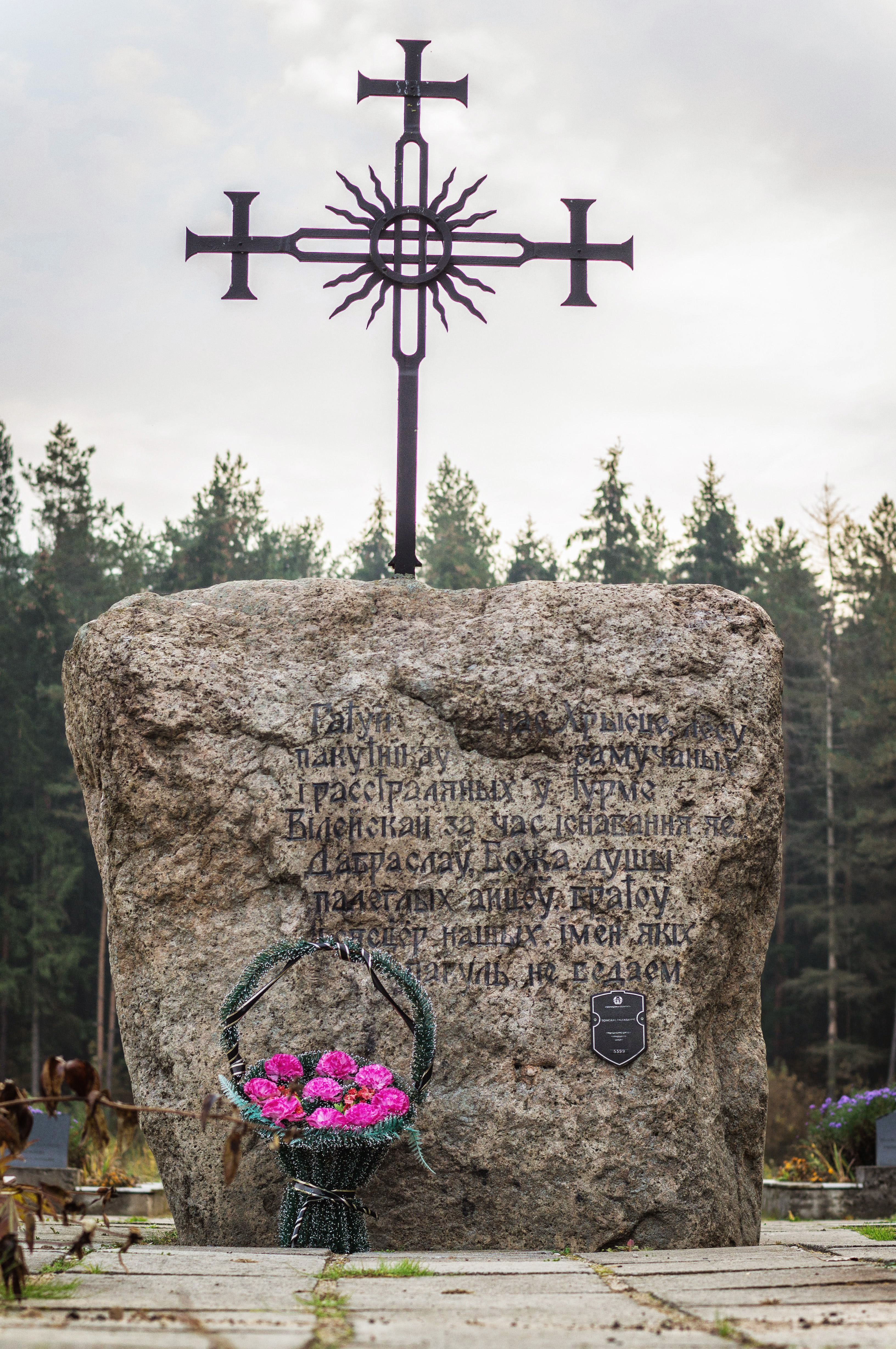 Monument to victims of Vilejka jail